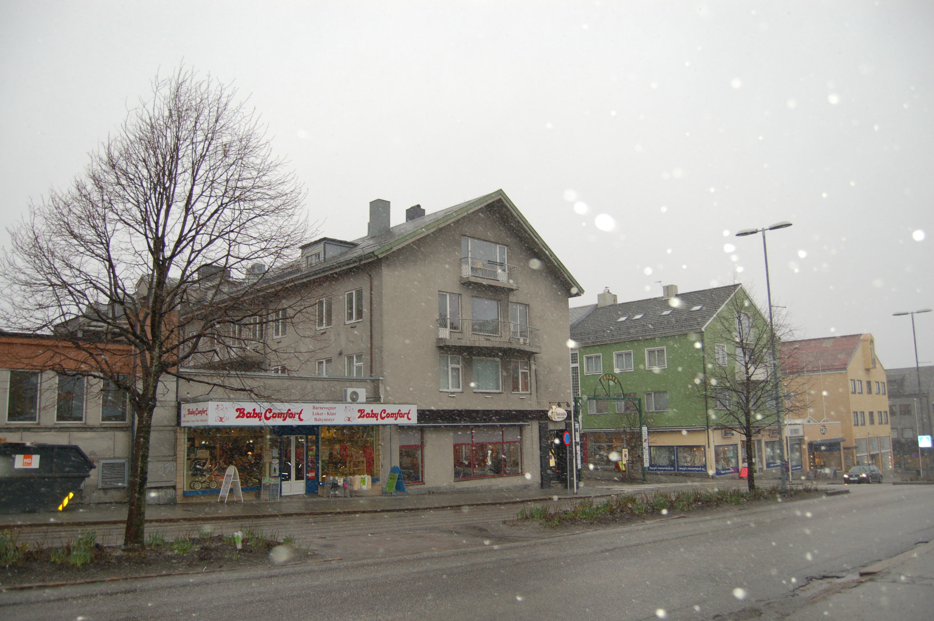 Building in Kristiansund, Norway. The grey building was designed by the Norwegian female architect Maja Melandsø. Erected between 1945 and 1956